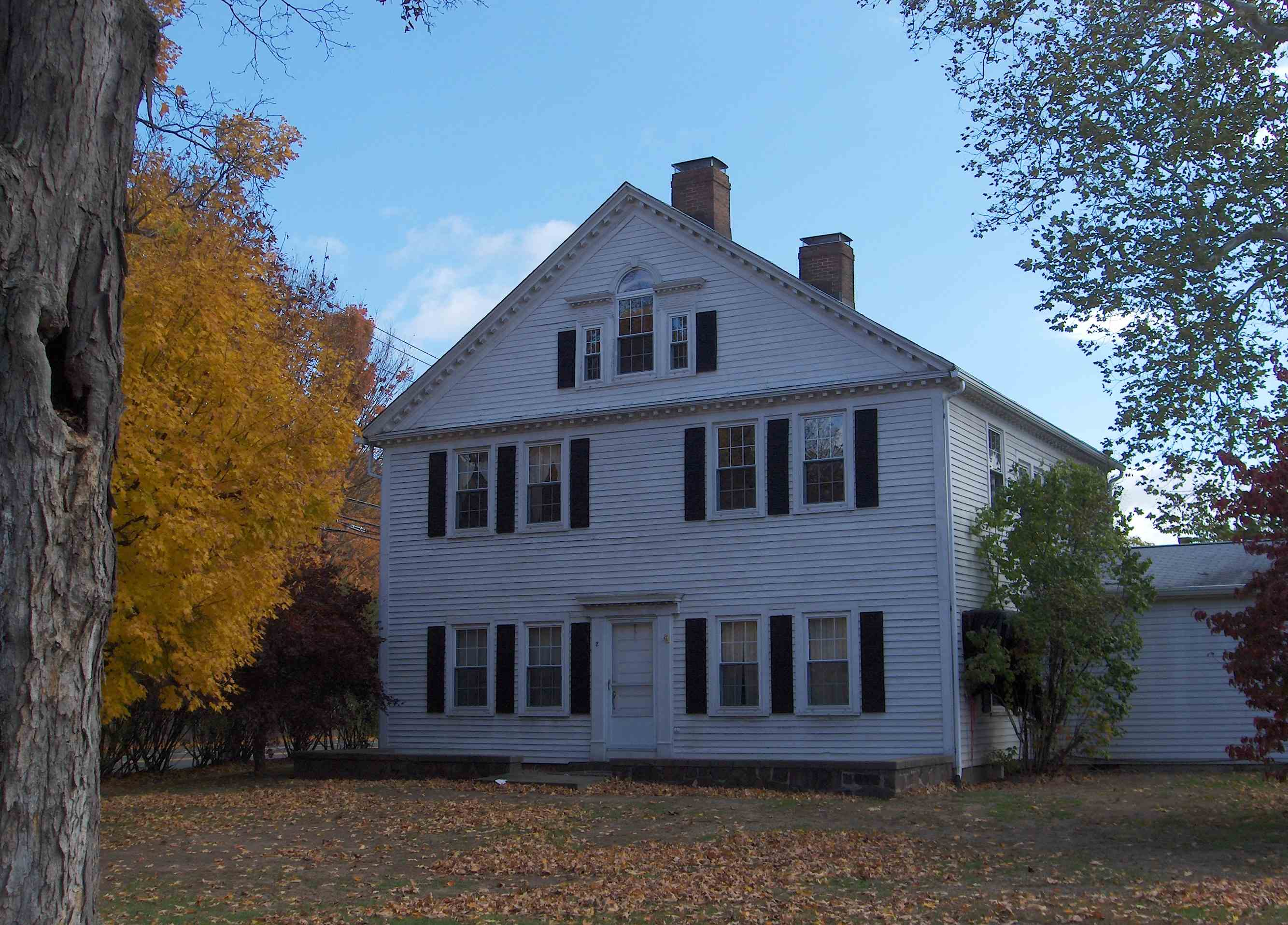 Early 19th Century Federal style building in the Granby Center Historic District, Located at 2 Park Place Granby CT USA